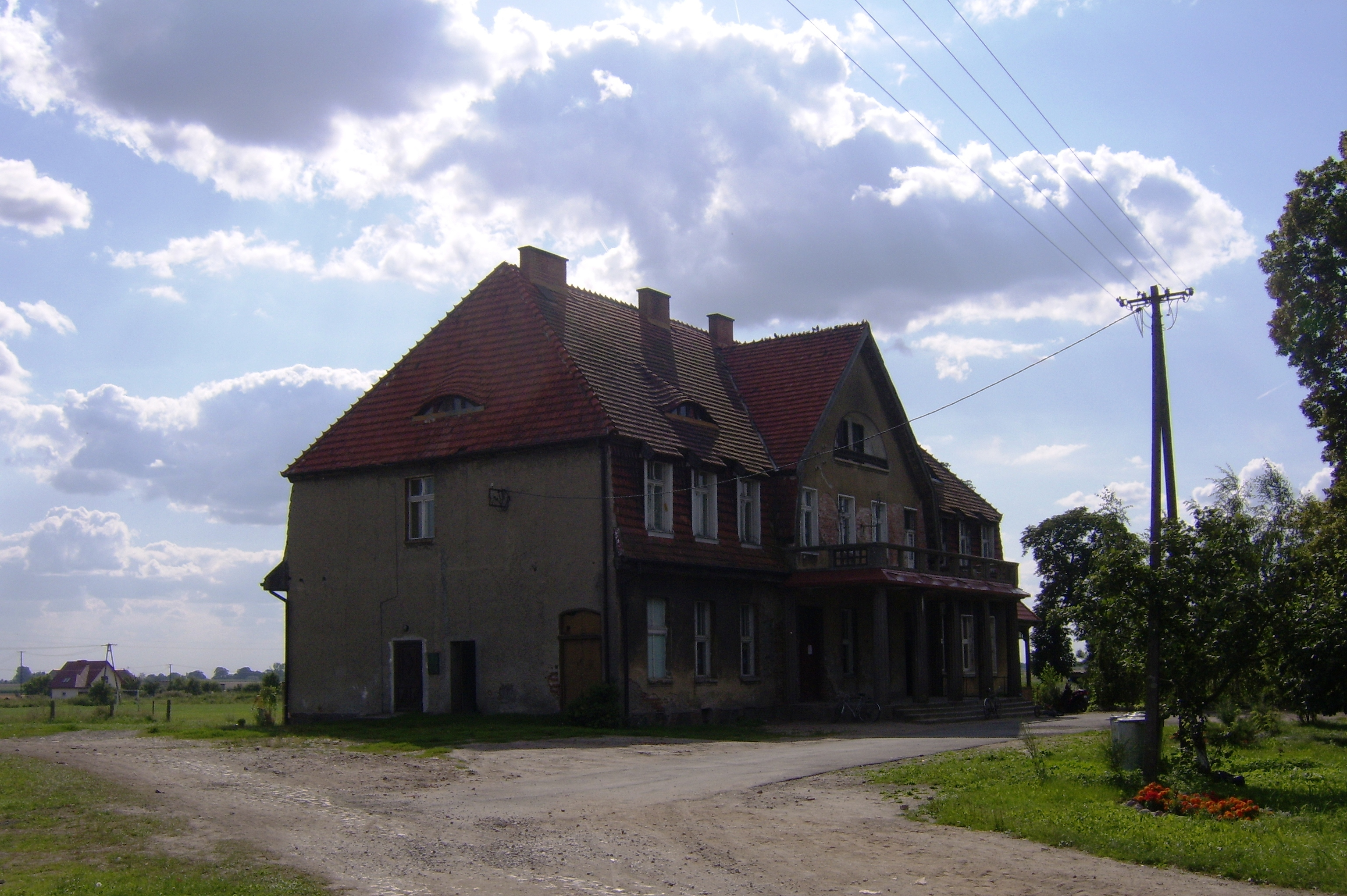 Country Mirakowo Palace - XVIII century